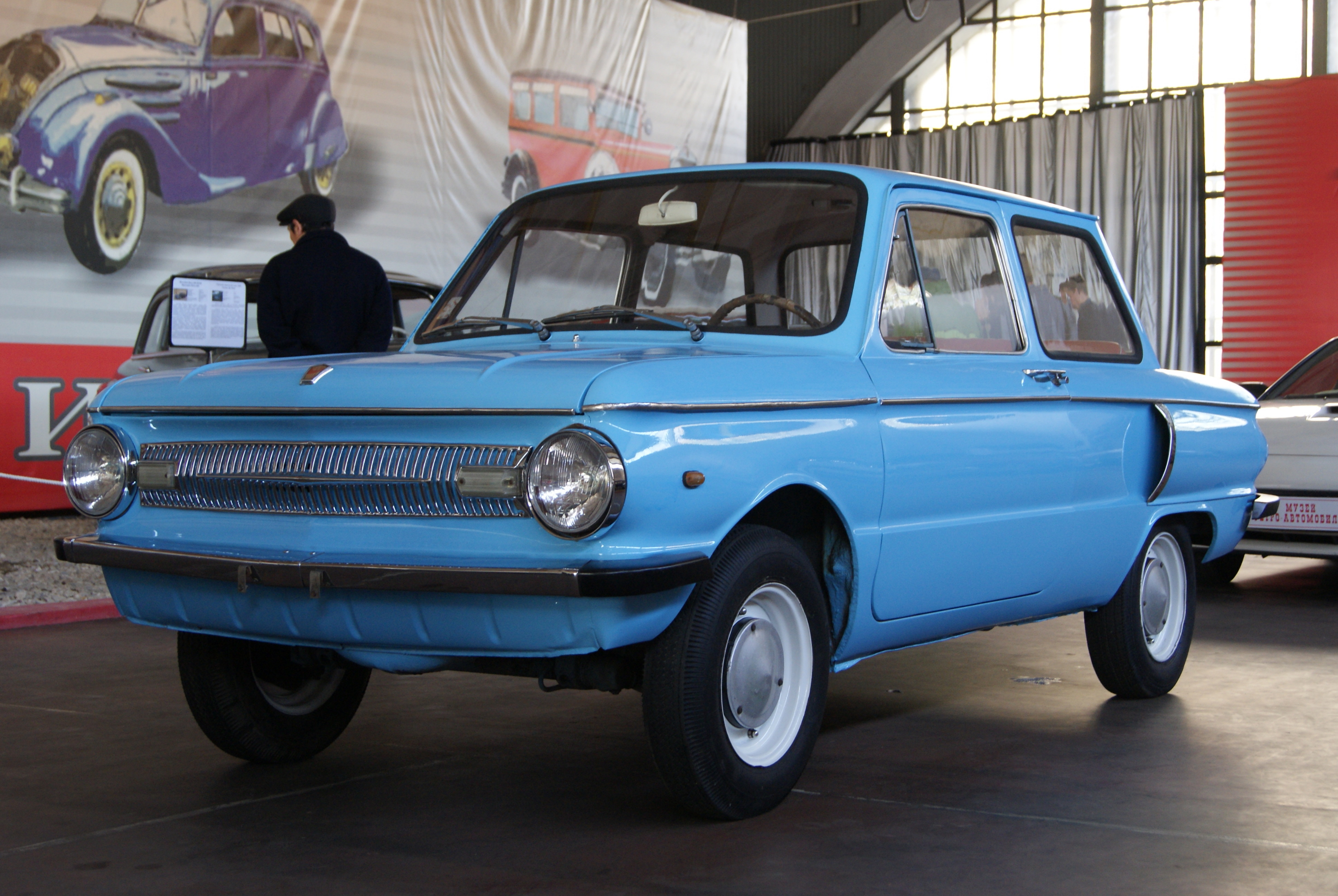 ZAZ-966 front view.